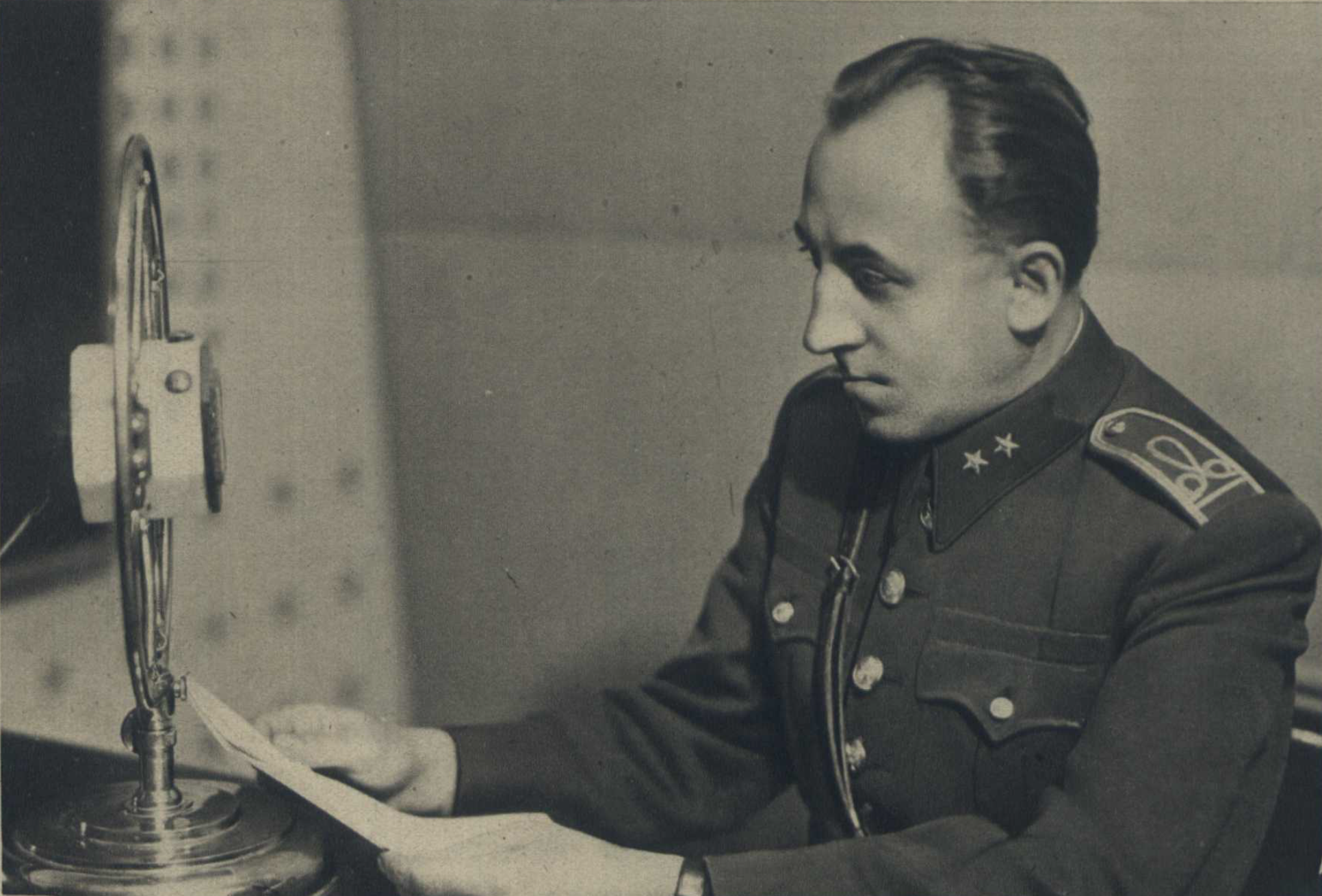 Karol Murgaš, propaganda minister of Slovakia, reads a script at Slovak Radio